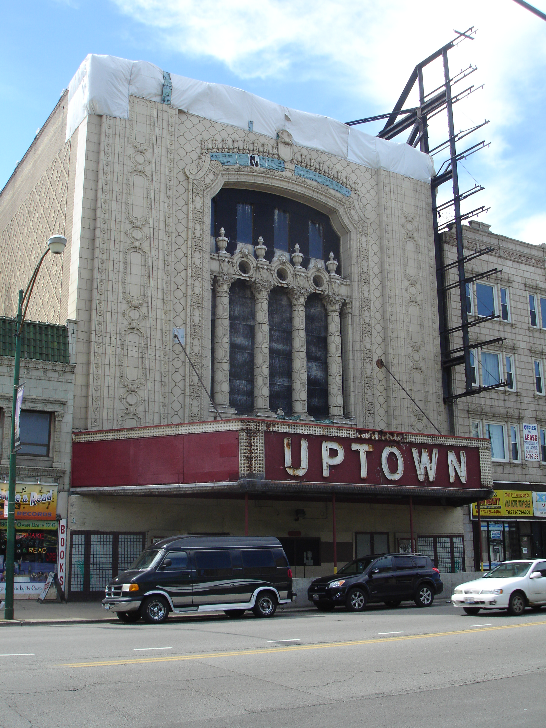 Uptown Theatre (1925), Rapp & Rapp, Chicago Landmark, Chicago, Illinois, May 17, 2011: "The Uptown Theatre was designed by the architects who were largely responsible for popularizing the motion picture palace. The crown jewel of the Balaban and Katz theater chain, it was the focus of the Uptown entertainment district of the 1920s. The Spanish Revival style design was loosely derived from Spanish Baroque architecture and included nearly 4,500 seats, making it the second largest movie palace in the United States after New York's Radio City Music Hall. The architects also designed the Chicago Theater." Quoted text from: [1]